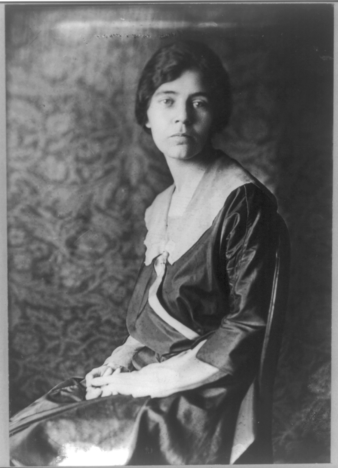 Title: Alice Paul Abstract/medium: 1 photographic print.